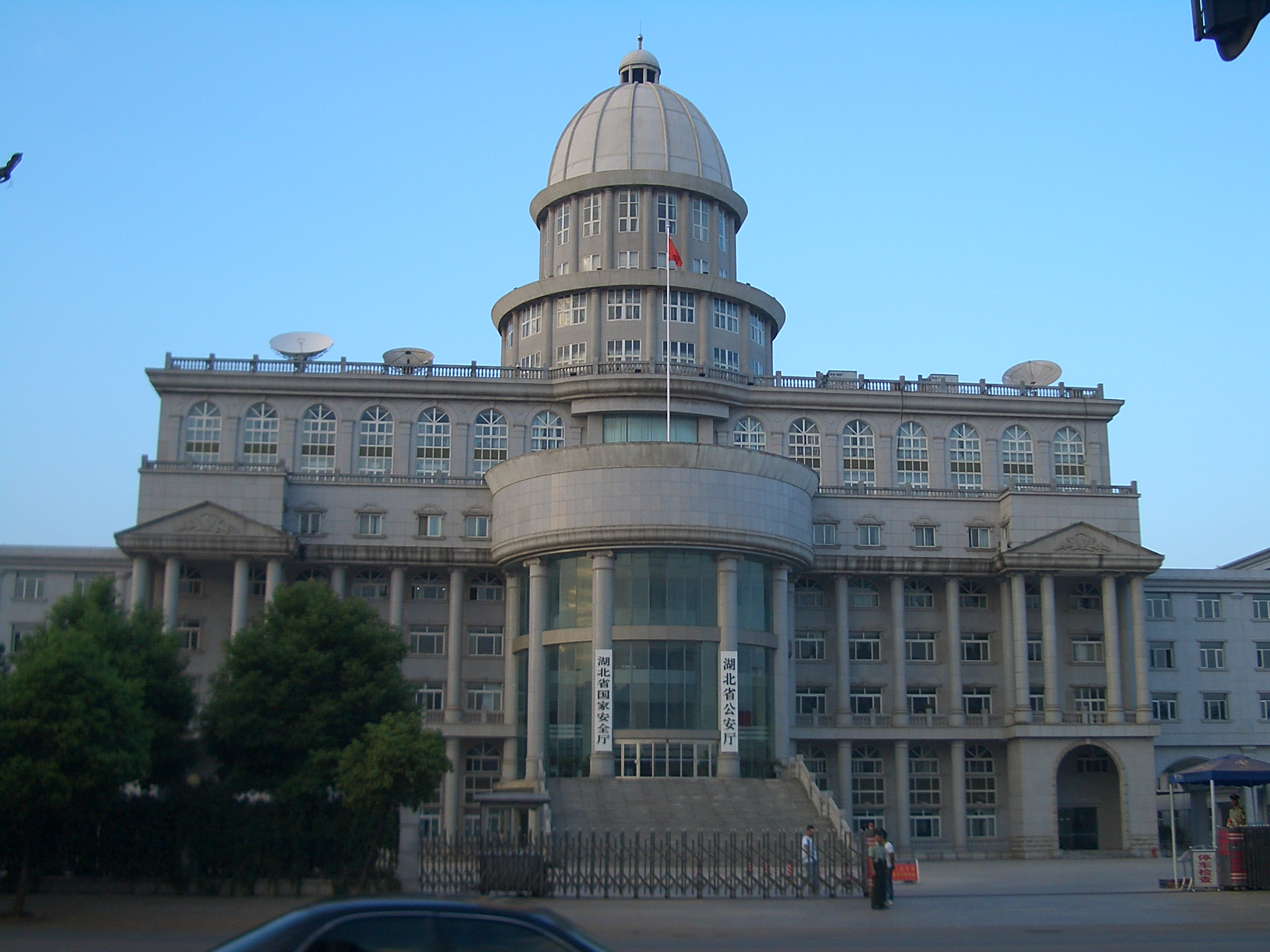 Hubei Provincial offices of Ministry of State Security (Guojia Anquan Ting) and Ministry of Public Security (Gong'an Ting) in Wuhan. The building is located in Xiongchu Lu, south of Wuchang Train Station.